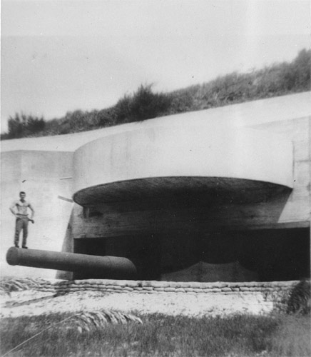 This photo shows an artilleryman standing on the barrel of a 12-inch casemated gun similar to that emplaced at Battery Gardner. Photo is courtesy of the Coast Defense Study Group, and is part of the CDSG archives.